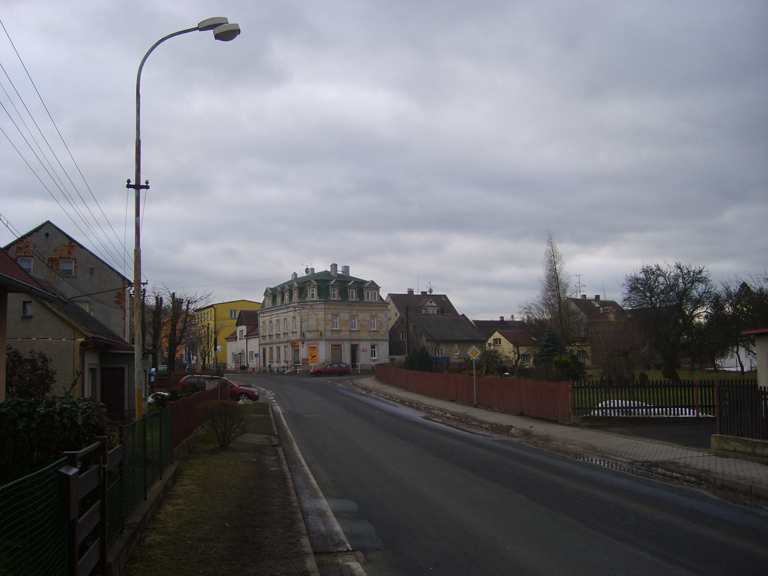 Center of Otovice in Karlovy Vary District, Czech Republic